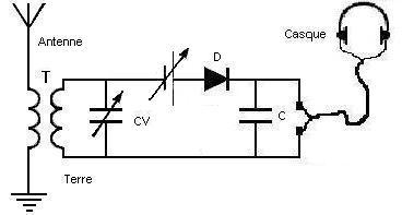 A crystal radio receiver circuit. To increase the sensitivity of the crystal detector (diode), a battery was connected in series to apply a small adjustable forward bias voltage across the detector, to overcome the forward voltage drop of the detector. This voltage must always be lower than the forward voltage drop of the detector But this system is unstable and resulted in breakdown of the contact, and was abandoned.